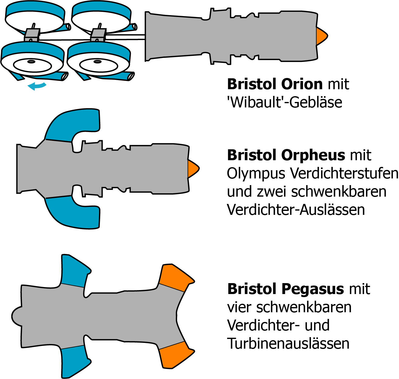 Development stages of the Bristol/Rolls-Royce Pegasus power plant